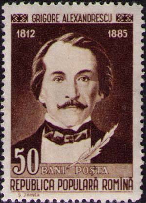 1960 Romanian Post, 50 bani, brown, representing Grigore Alexandrescu; Series:Romanian writers; Design: S. Zainea